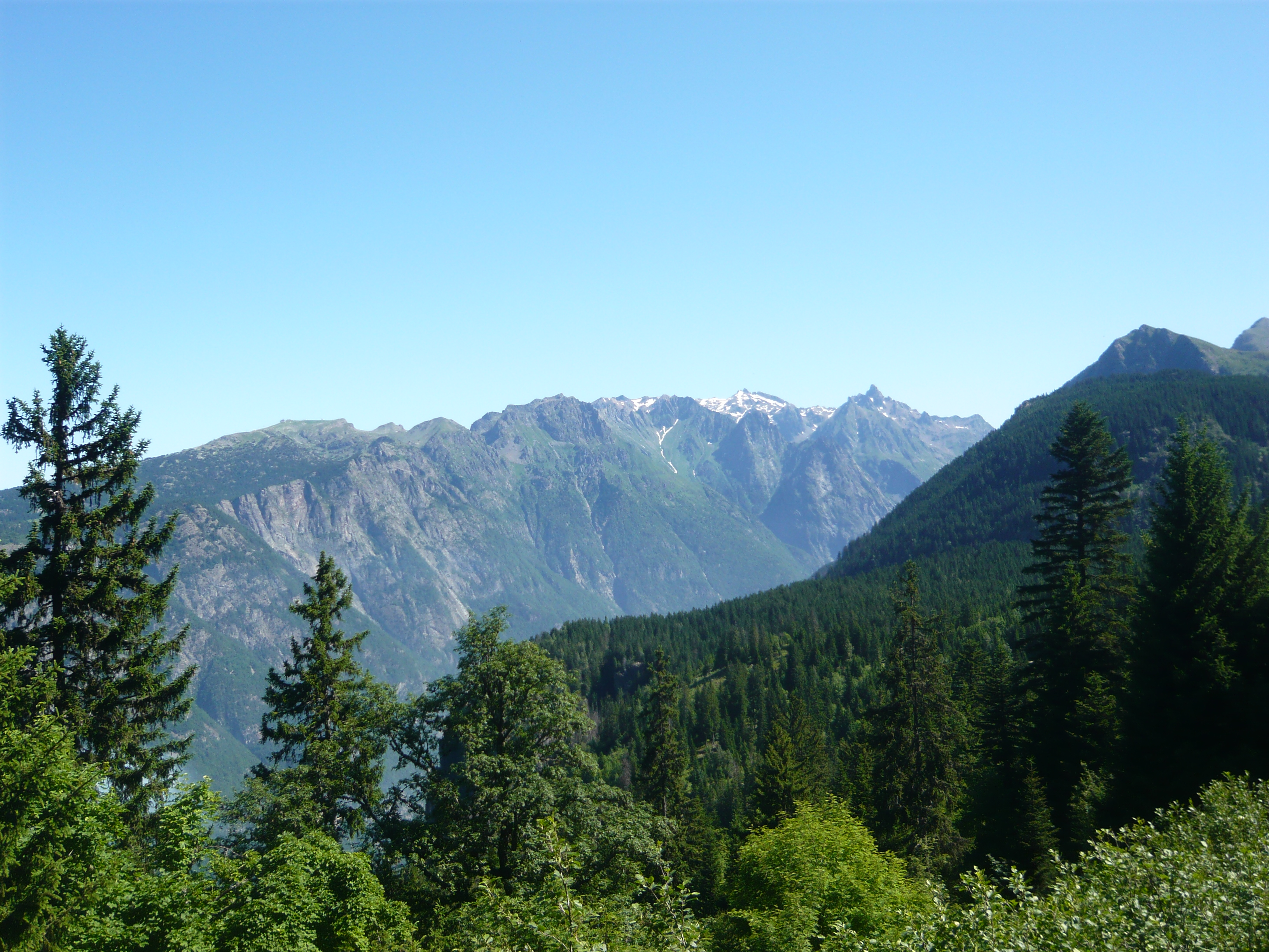 View of the Oisans mountains from La Morte (Isère, France). July 2008.